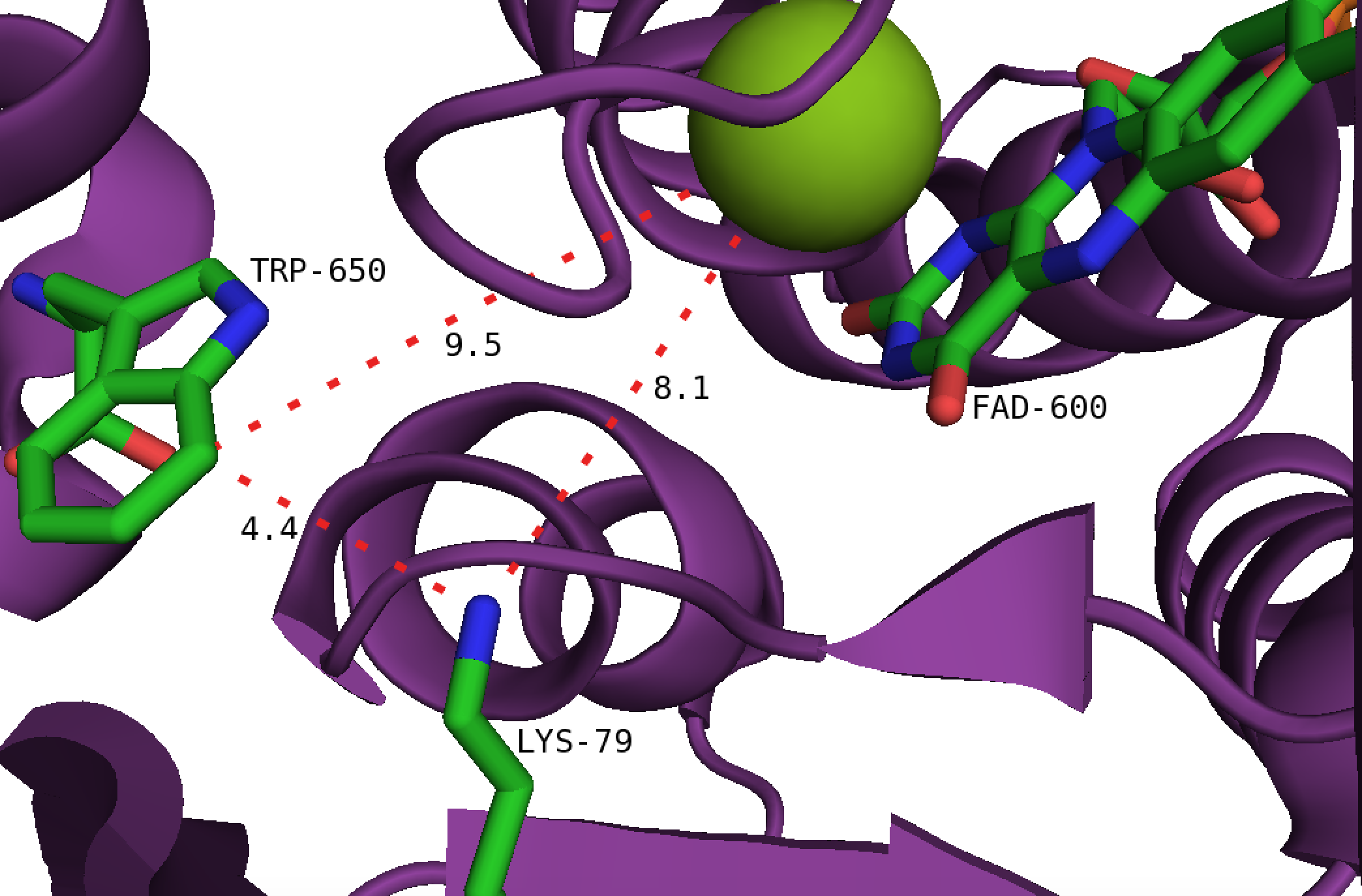 measured distances for key features in PrnA halogenase active site.